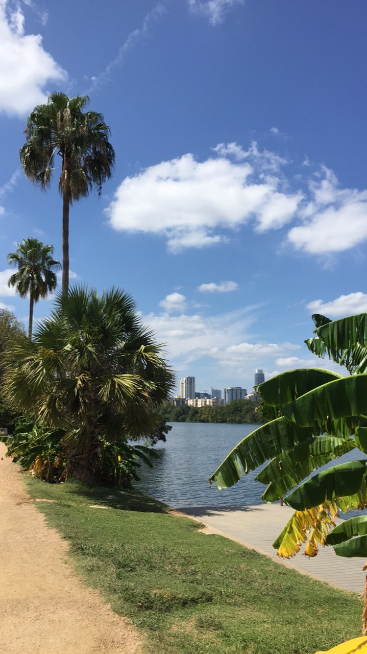 The Austin, Texas skyline seen from the Ann and Roy Butler Hike-and-Bike Trail along Lady Bird Lake, near the South Shore District.